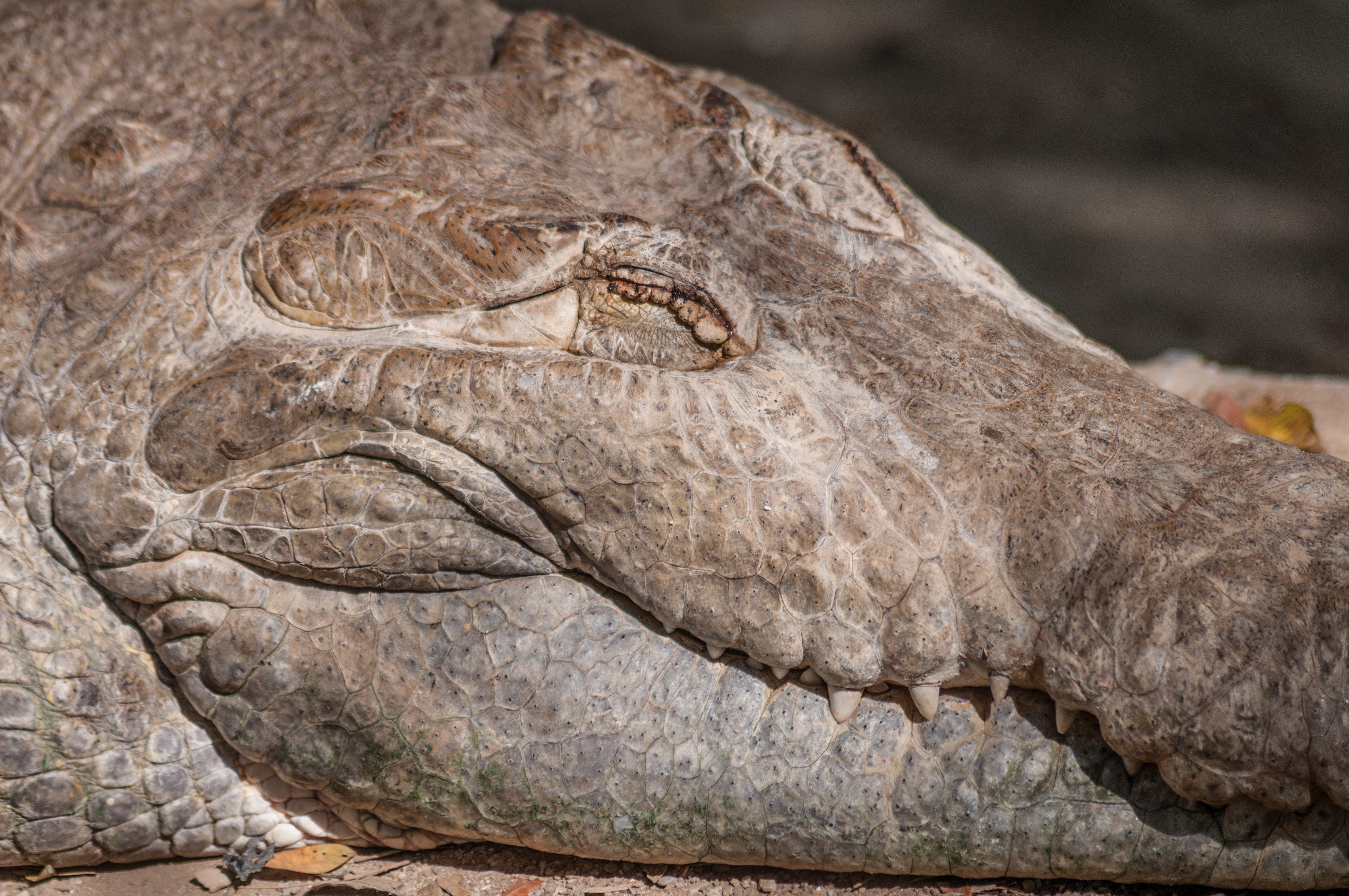 Crocodylus intermedius from Venezuela